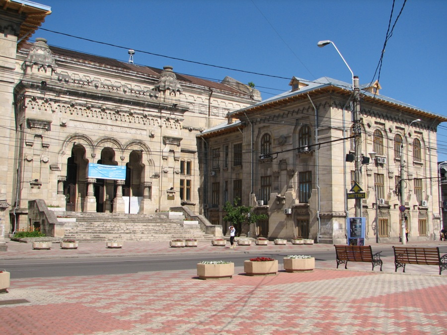 Picture of the Rectorat Building at the University of Galaţi